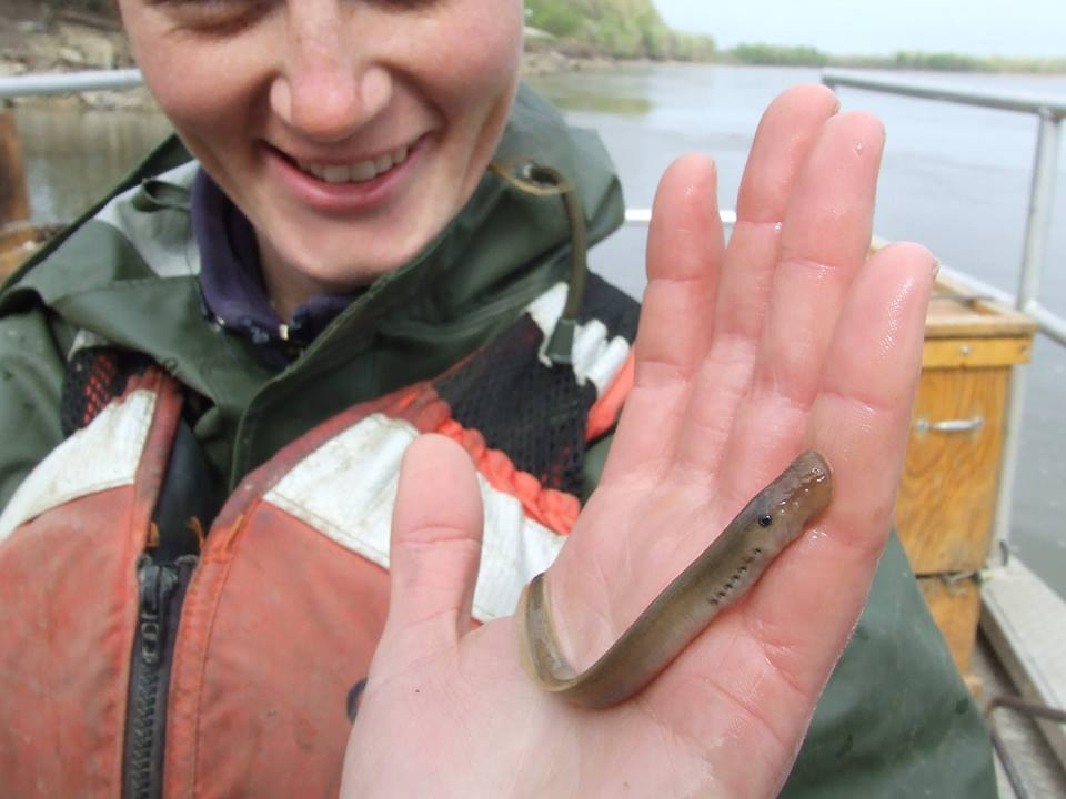 A young chestnut lamprey found in Missouri. Chestnut lampreys are native to North America. Photo by Cal Yonce/USFWS